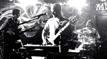 At Latl playing as a three-piece at local Milwaukee venue, Mad Planet.